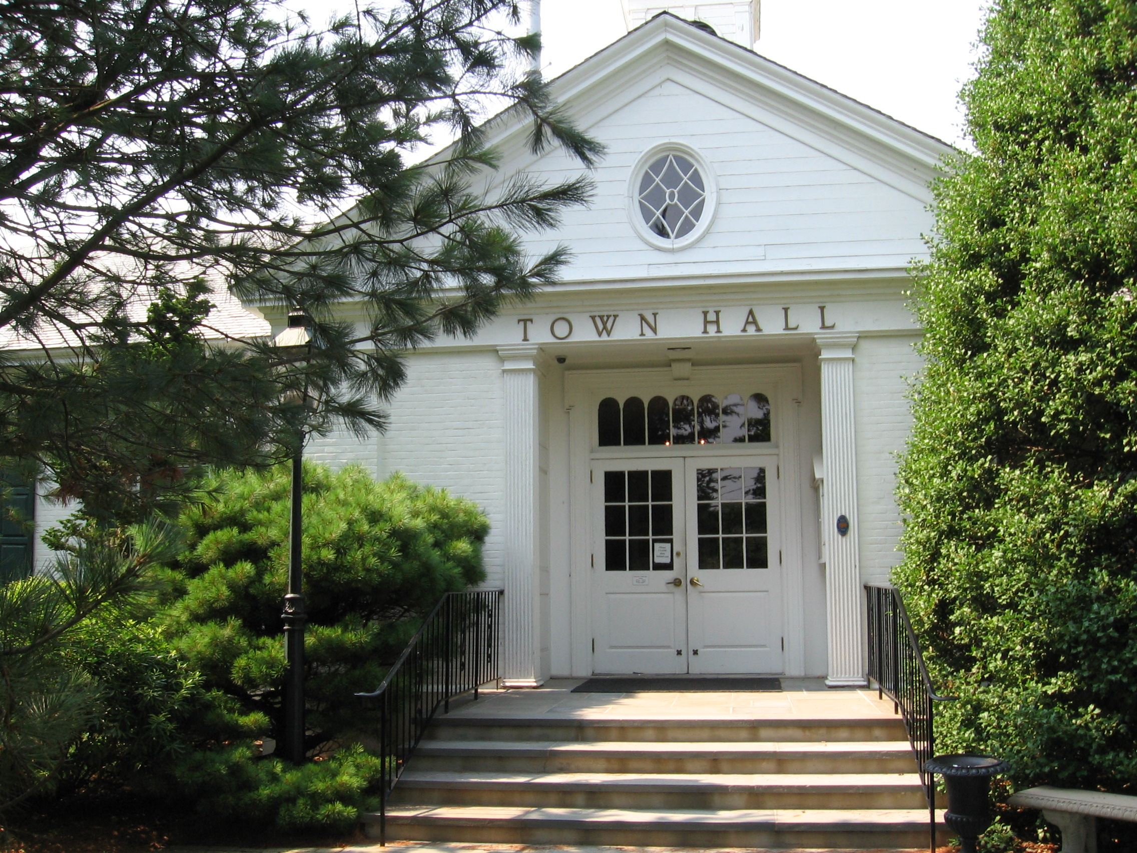 Town Hall, Weston, Connecticut, south (main) entrance